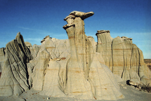 Hoodoo rock formations — in Theodore Roosevelt National Park, North Dakota, U.S.